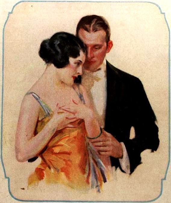 Illustration used in a magazine soap ad, captioned "A Skin You Love to Touch" by Walter Biggs, on the back cover of the November 1922 Photoplay.